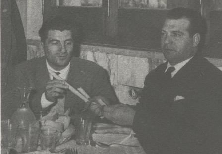 Rival Camorra bosses Antonio Esposito and Pasquale Simonetti